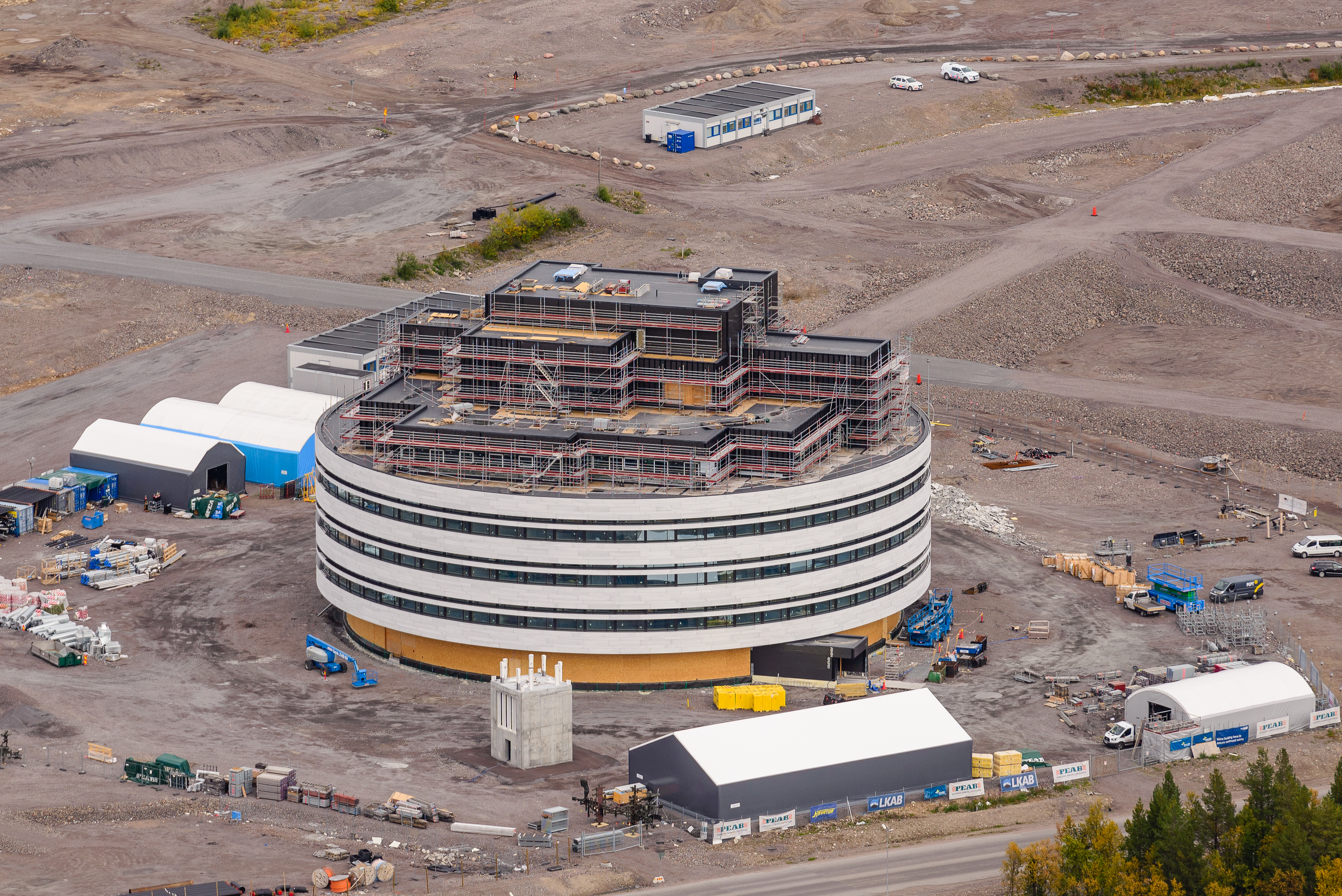 The site of the new town center of Kiruna with the new city hall under construction.